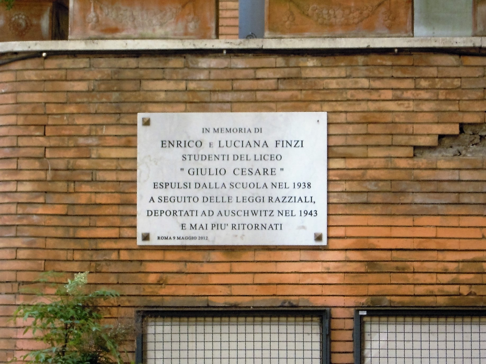 Memorial stone of the Finzi brothers, expelled from high school Giulio Cesare in Rome for racial reasons in 1938